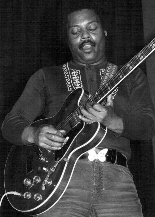 American blues guitarist Luther Tucker in France